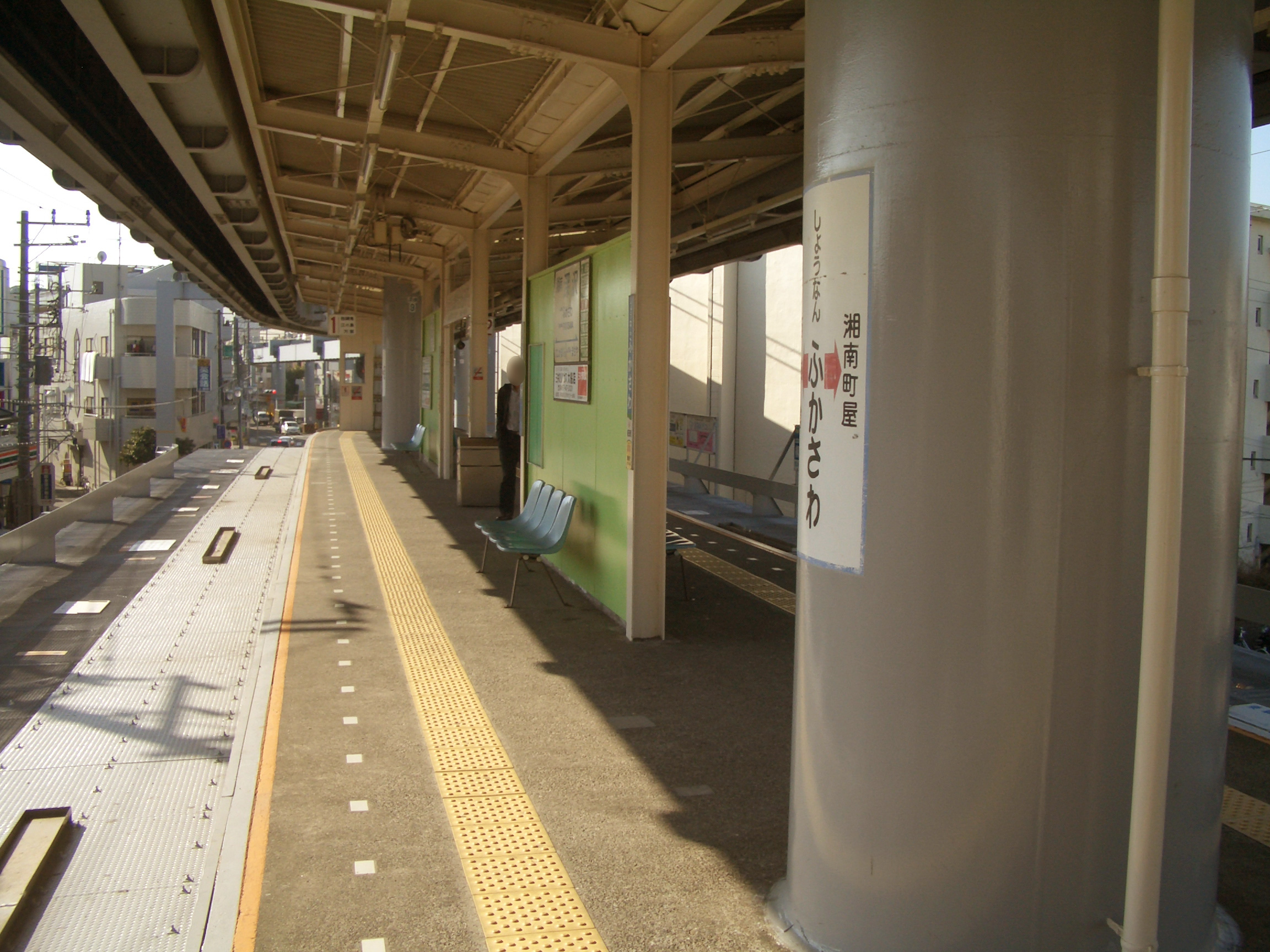 The platform at Shōnan-Fukasawa Station on the Shōnan Monorail Line in Kamakura city, Kanagawa prefecture, Japan